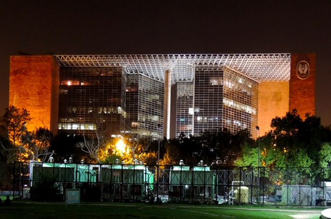 LIC Zonal Office Night View from Connaught Place Park